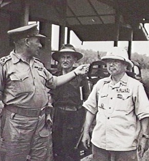 Kuching, Sarawak. 1945-09-11. Brigadier T. C. Eastick, commanding Kuching Force, giving instructions before leaving camp with Colonel A. W. Walsh, Commanding Officer, 2/10th Field Regiment (background) and Colonel T. Suga, Imperial Japanese Army, Commanding all the Japanese Prisoner of War Camps in the area, to check the methods that have been used by the Japanese to carry out the surrender conditions.